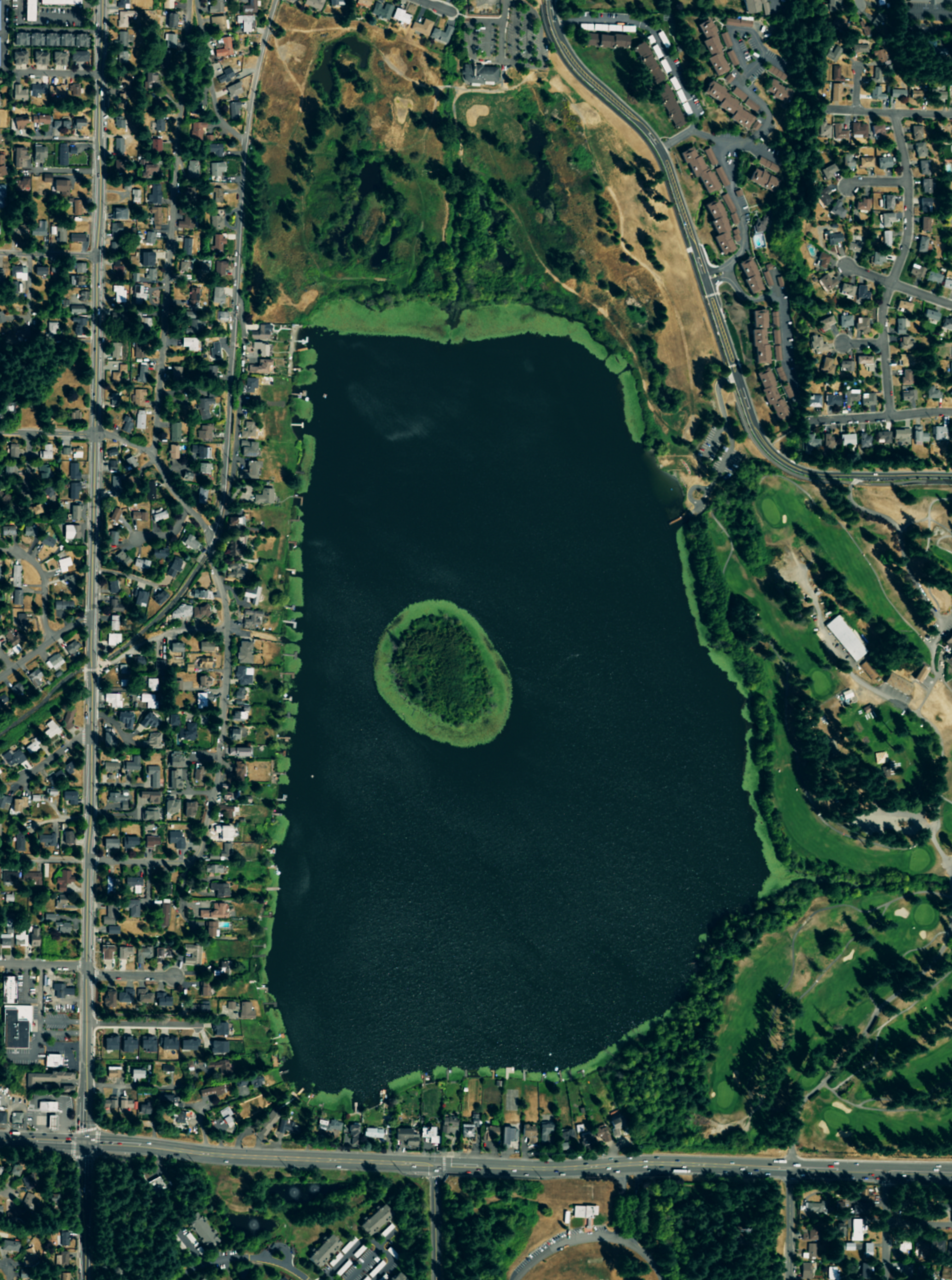 Lake Ballinger and surrounding area, Statewide NAIP 2017 3ft 4band Imagery